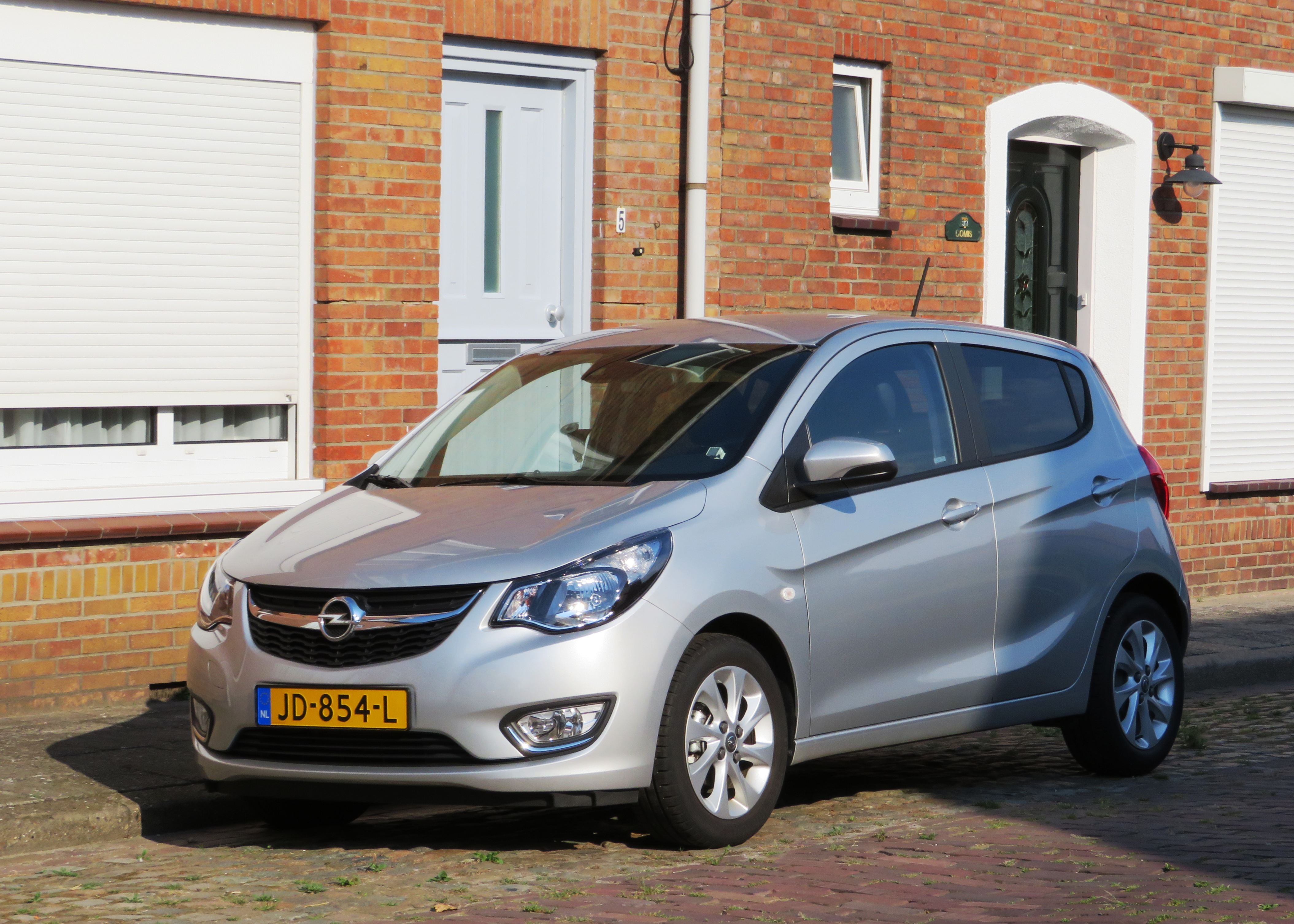 Opel Karl in summer evening light